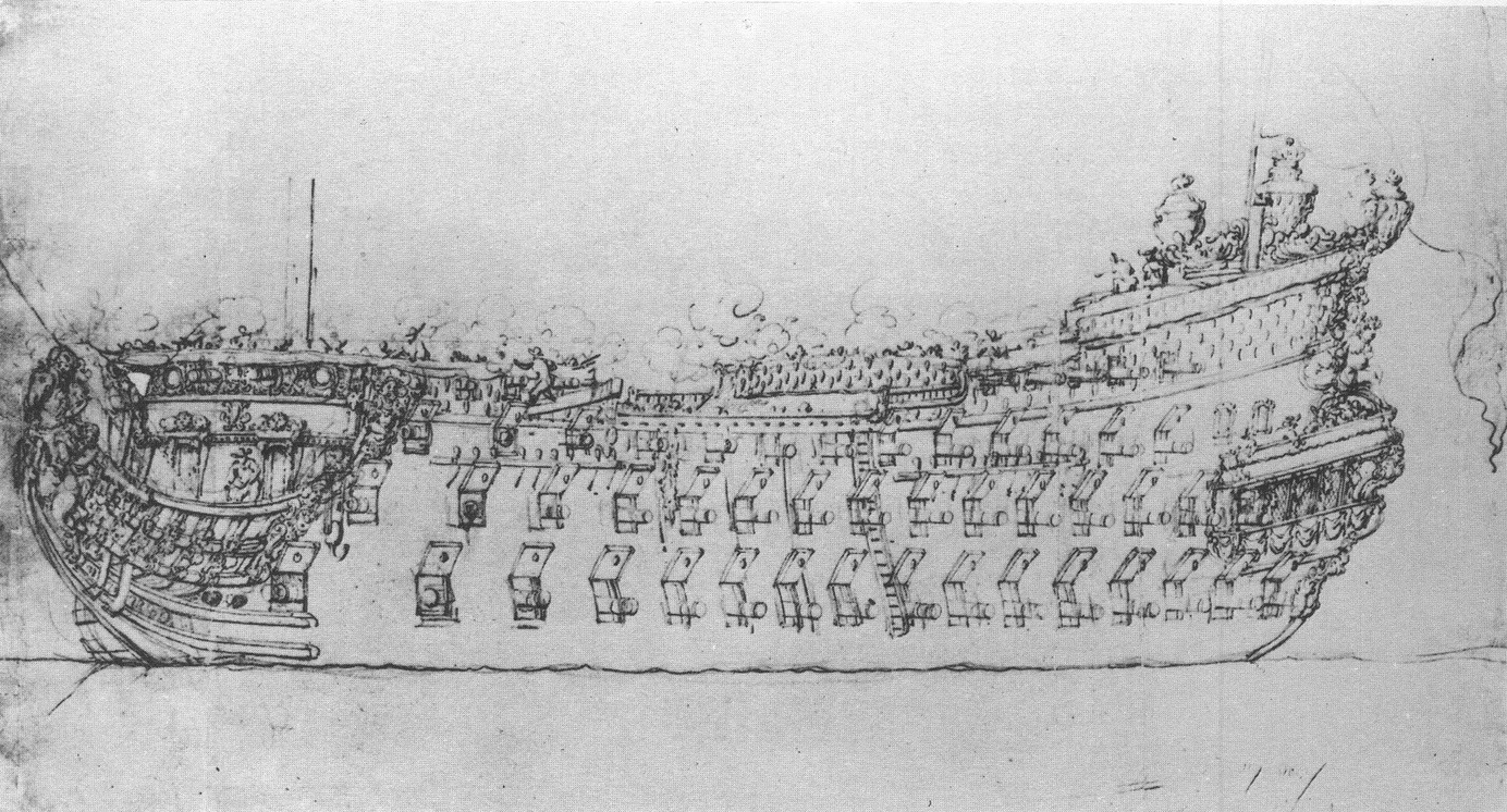 Drawing of Reine (ex-Royal Duc), designed by Laurent Hubac